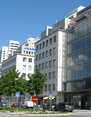 Rejlers' headquarters in Stockholm, Sweden.